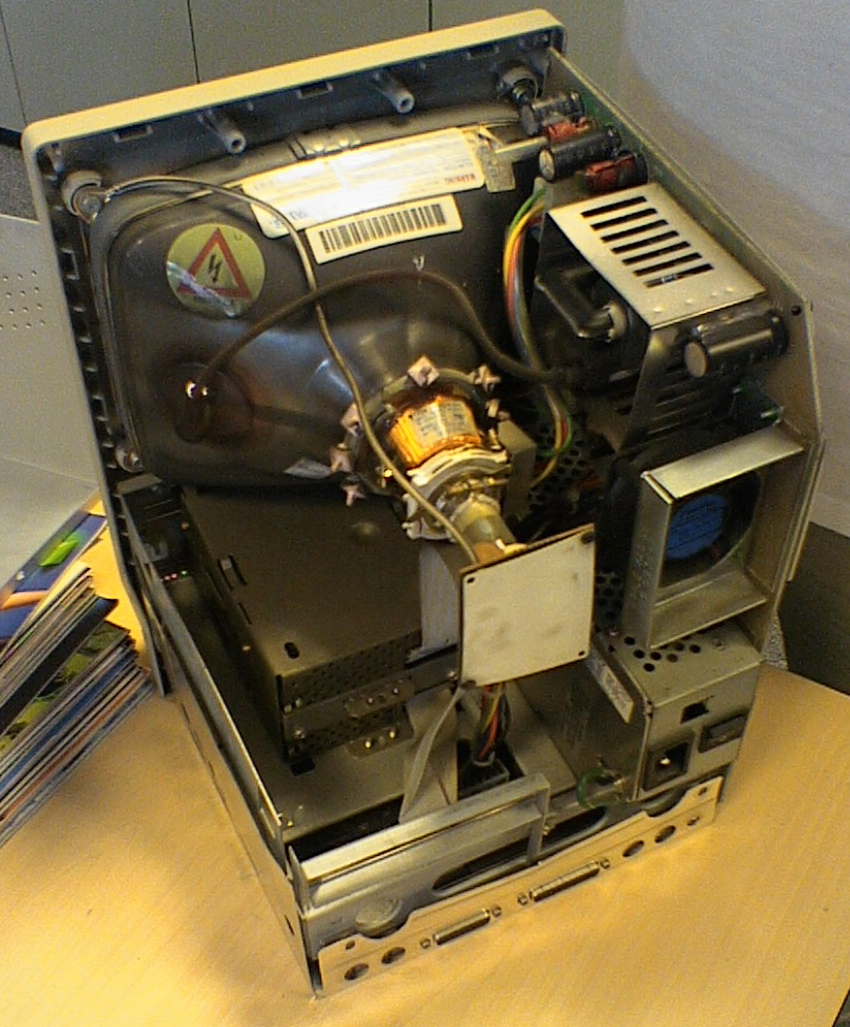 An Apple Macintosh SE with the cover removed.